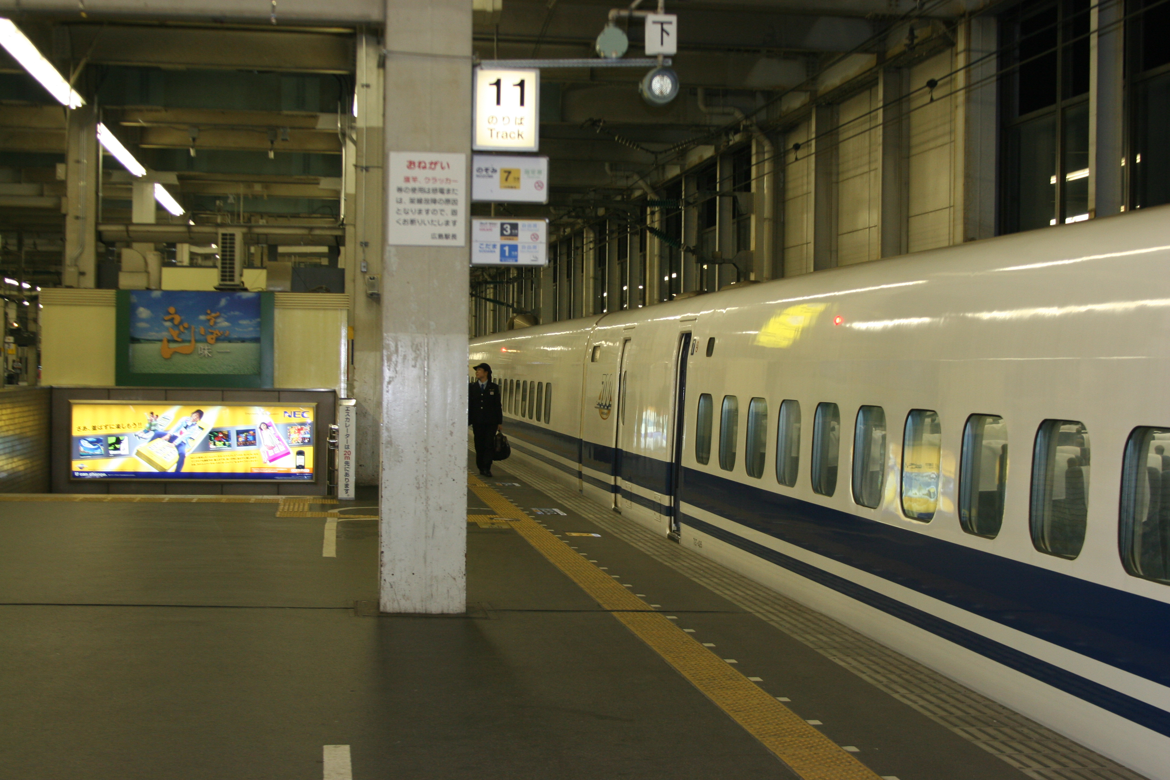 Shinkansen at Hiroshima Station.